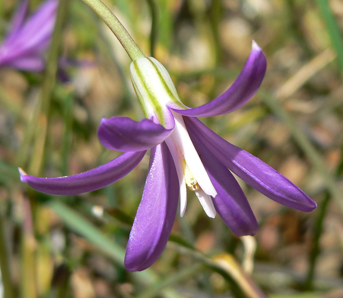 Brodiaea appendiculata — Appendage brodiaea, Hoover's brodiaea. At the University of California Botanical Garden, Berkeley Hills, California.